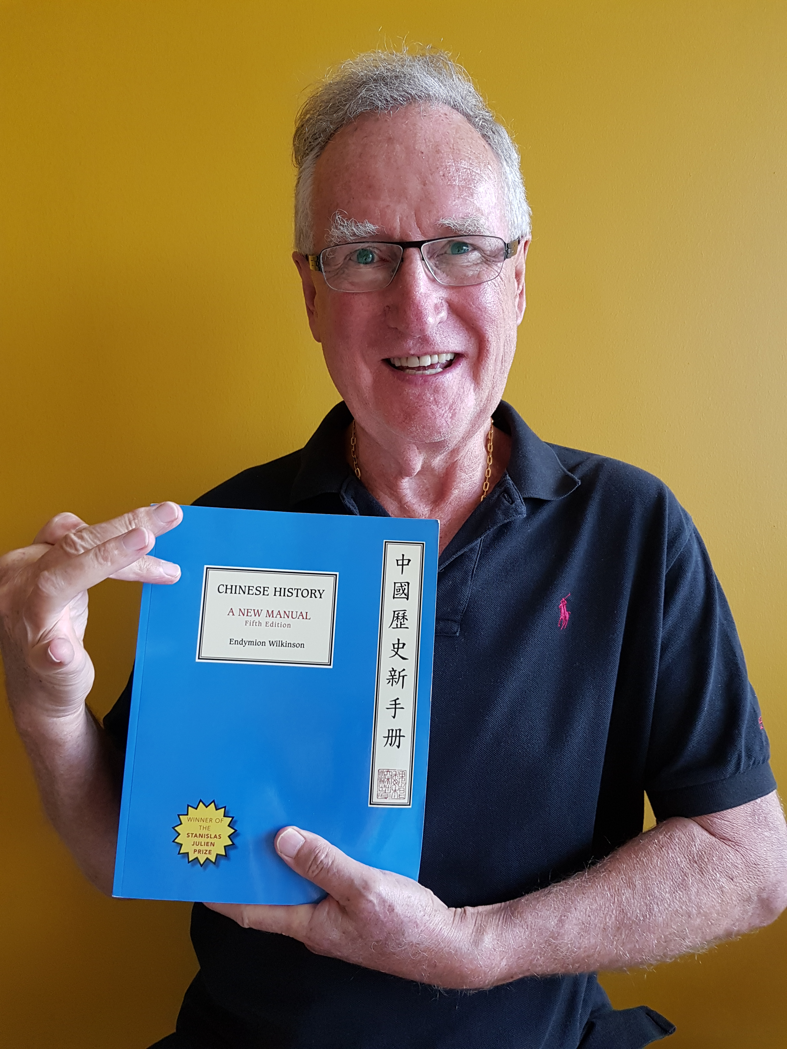 Photo taken at home